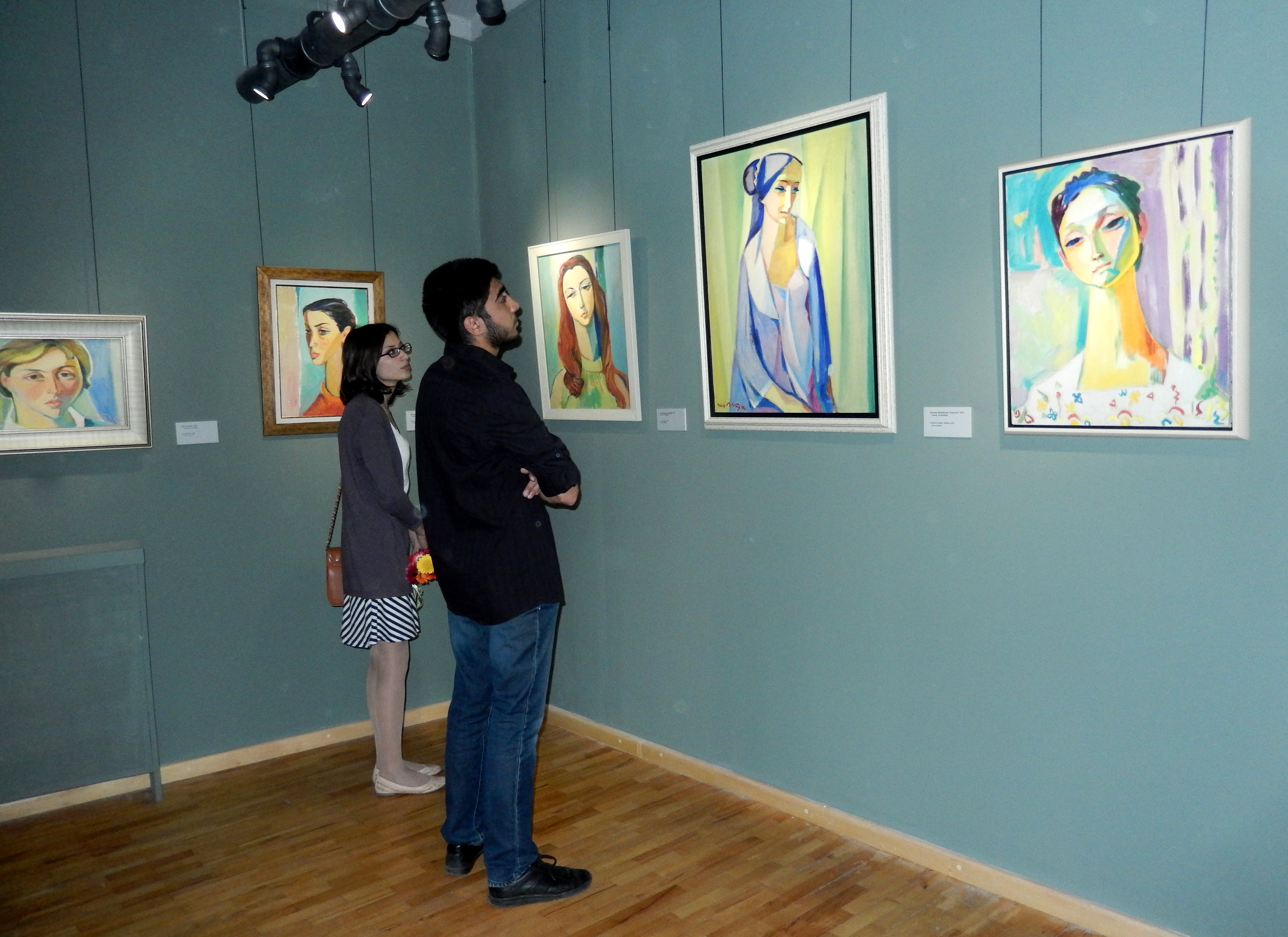 Կալենց թանգարան